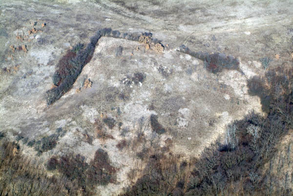 Felnémet, Hungary, aerial photography, castle Felnémet vára, légifotó